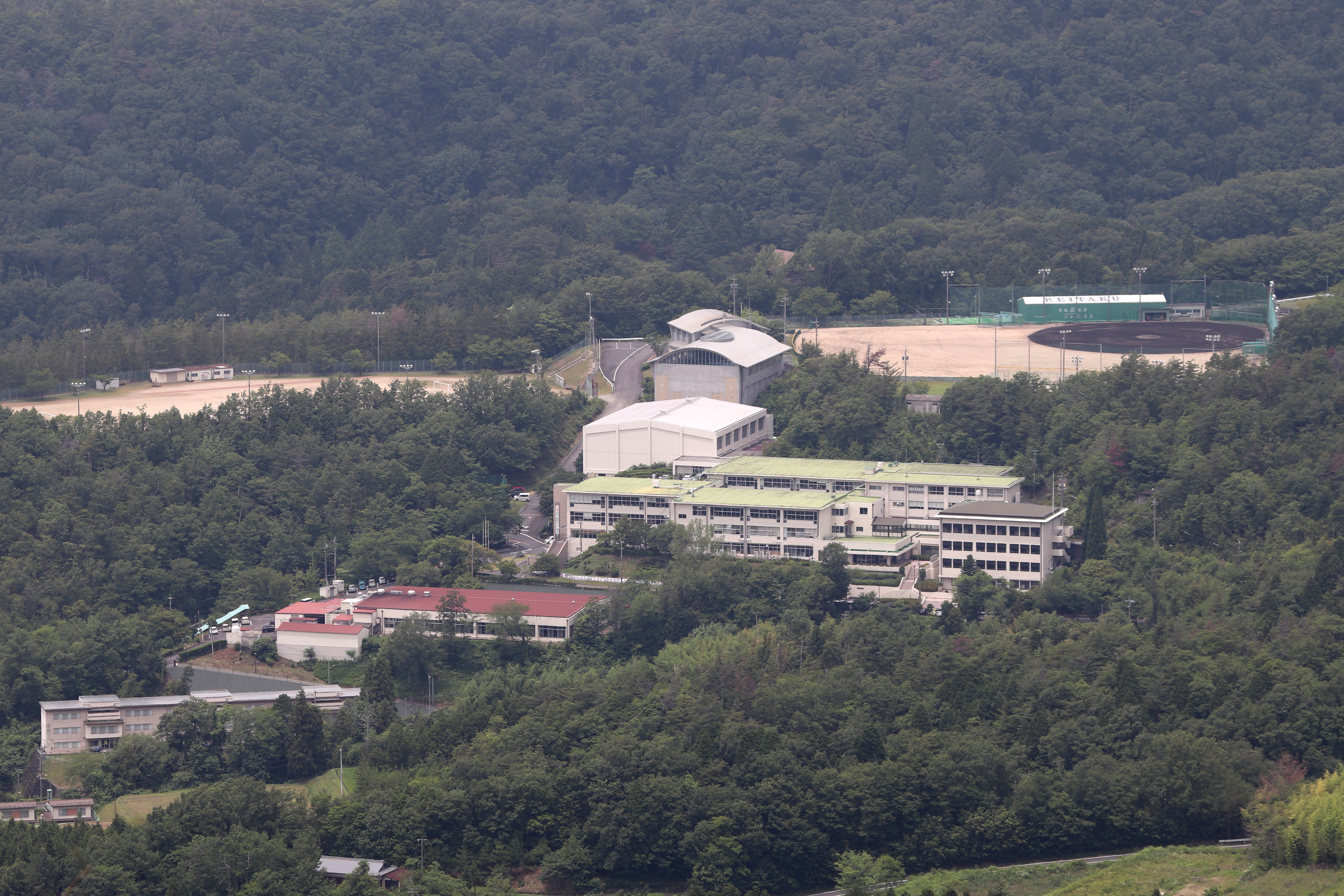 Reitaku Mizunami Junior high school and High school in Mizunami, Gifu Prefecture, Japan.